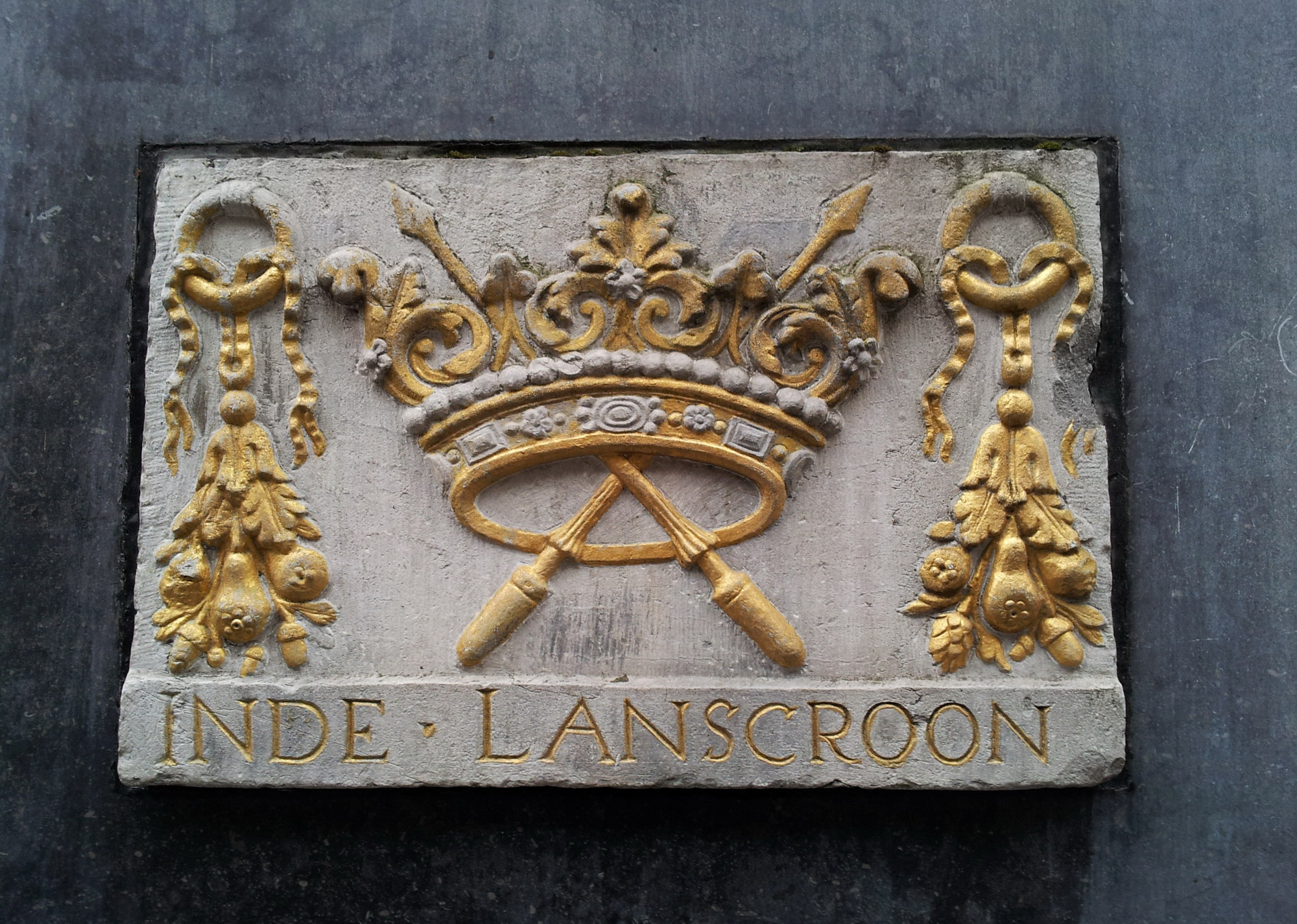 Maastricht, the Netherlands. Gable stone in the Grote Staat gable of department store Vroom & Dreesmann, formerly part of a house called In de Lanscroon, a predecessor of Maastricht town hall.